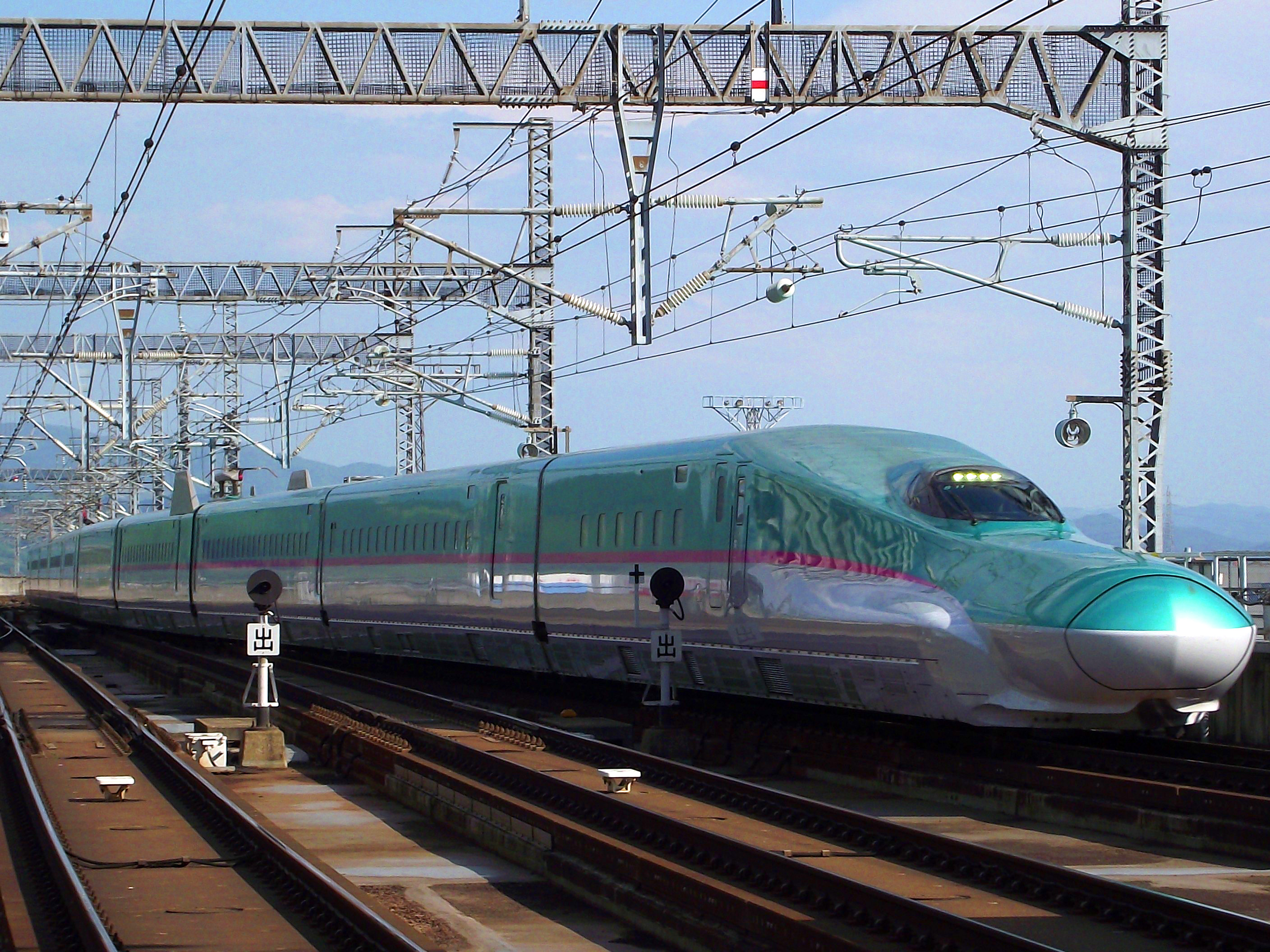 JR East E5 series shinkansen pre-production set S11 at Morioka Station